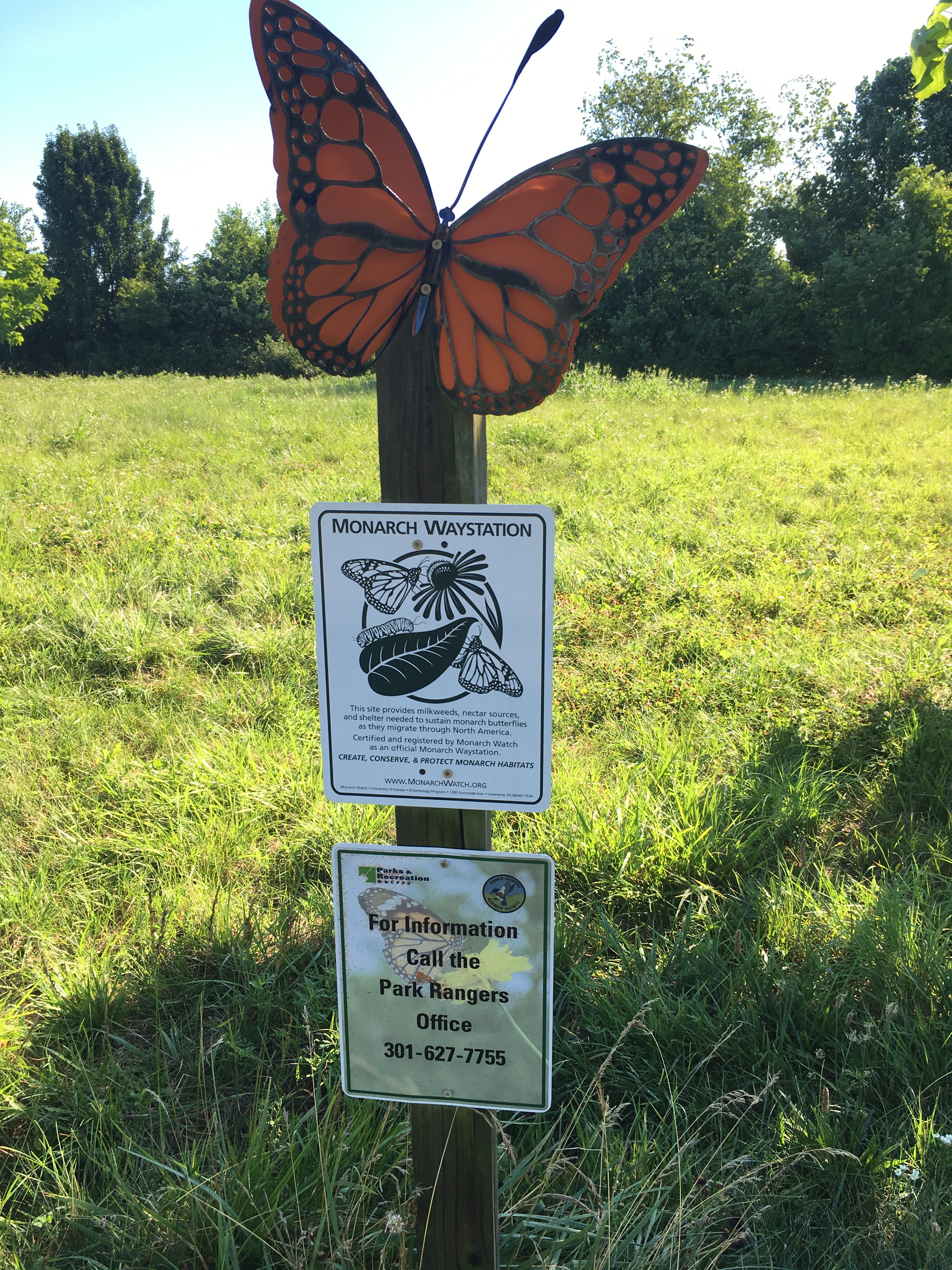 sign for Monarch Butterfly way-station near Berwyn Heights, Maryland